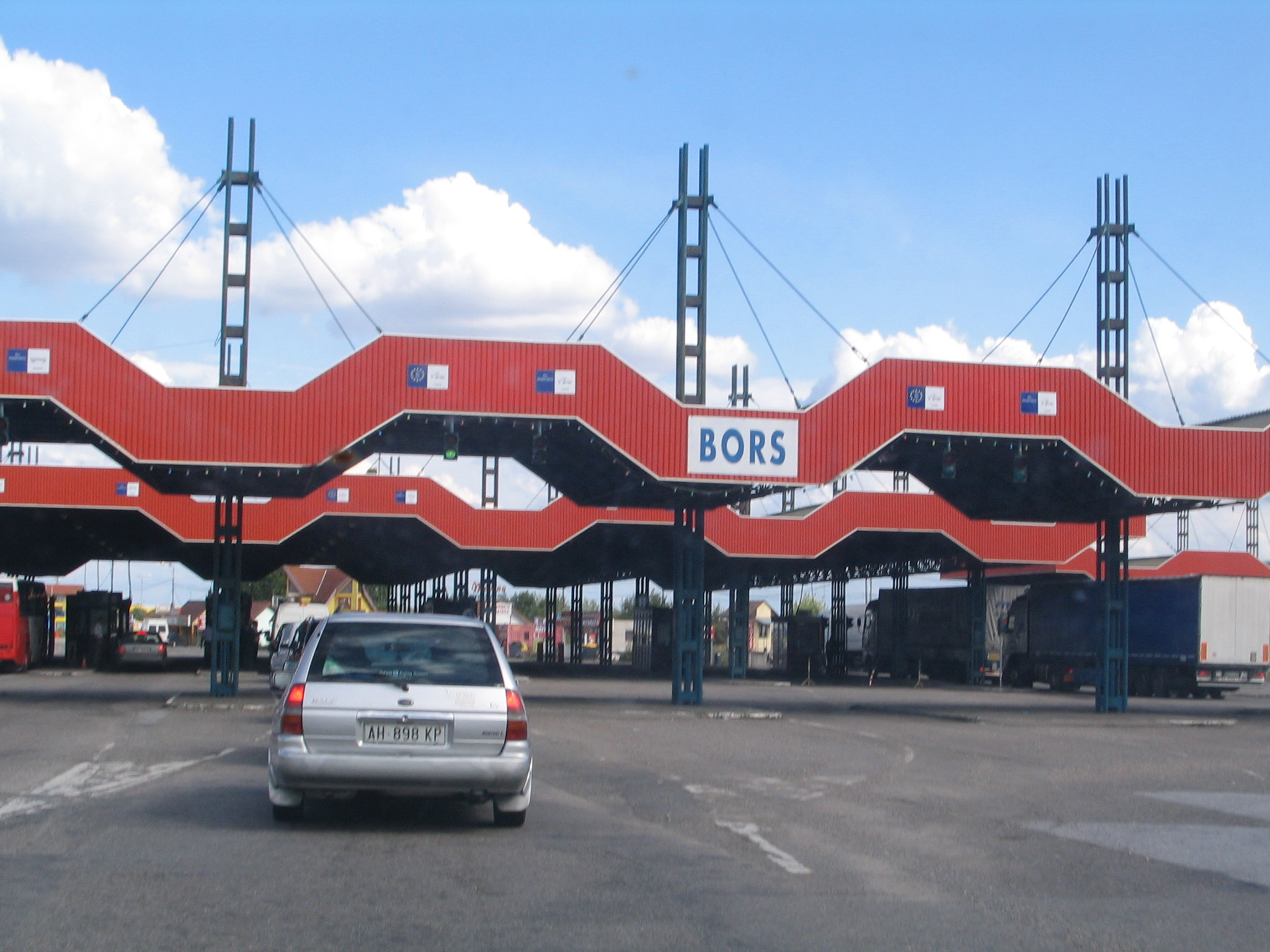 Border crossing, Ártánd (Hungary) - Borș (Romania), to Romania on the Romanian side